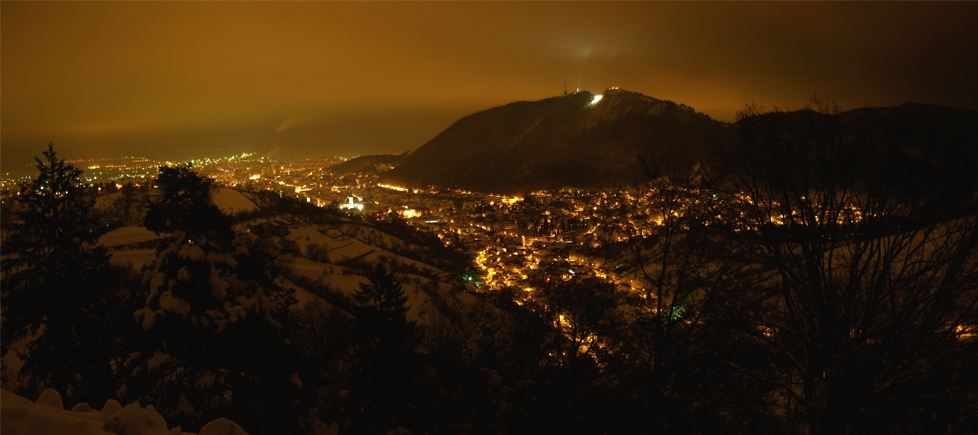 Brasov at Night - Panorama 2